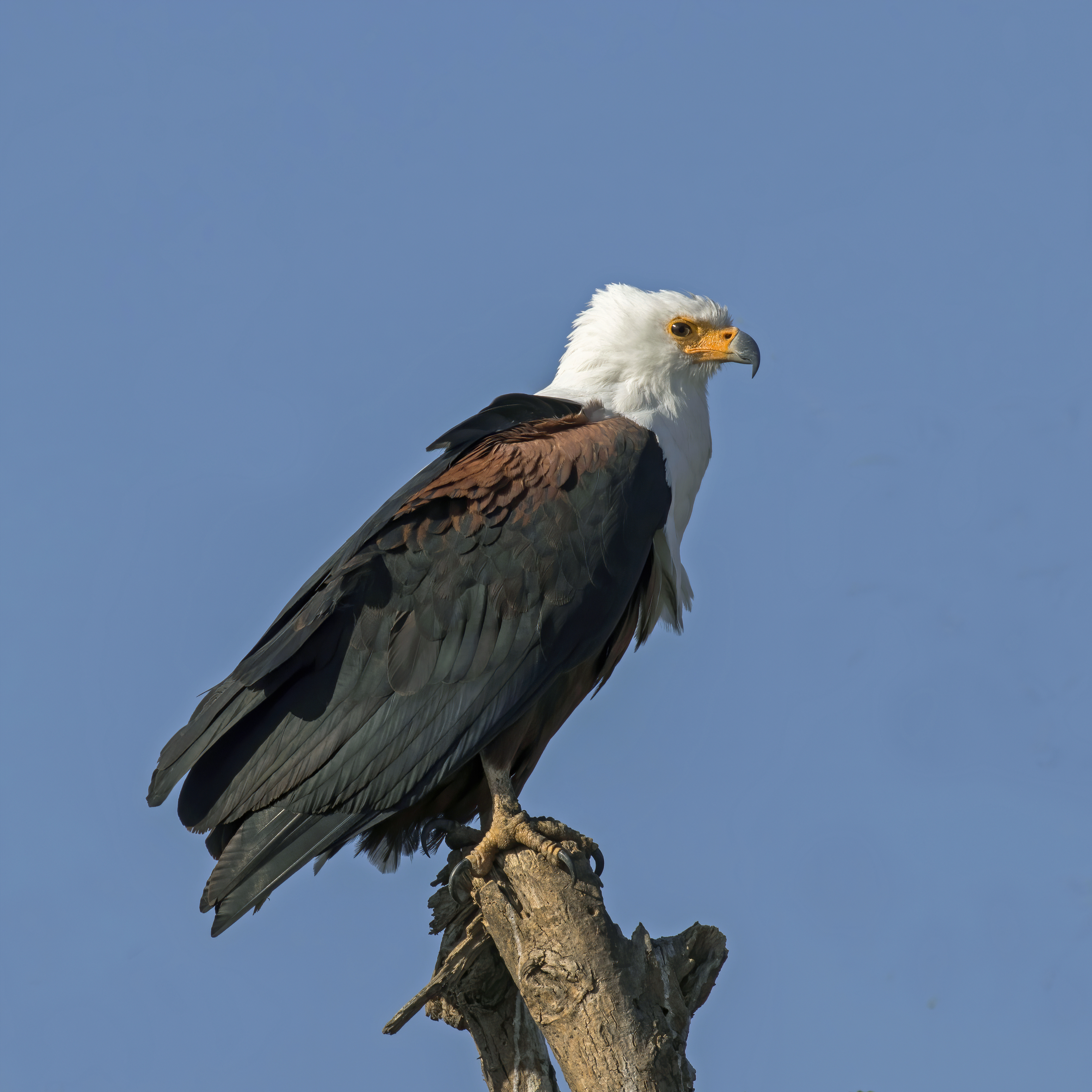 African fish eagle (Haliaeetus vocifer), Lake Ziway, Ethiopia